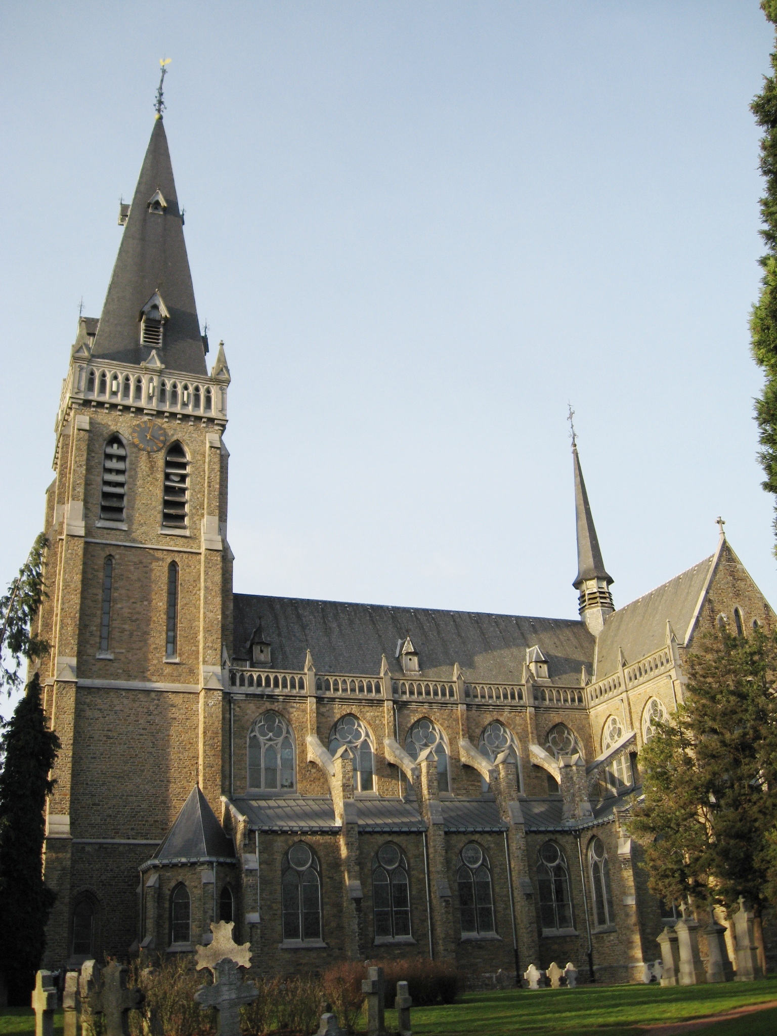 Church of Saint Hubert in Aubel, Liège, Belgium